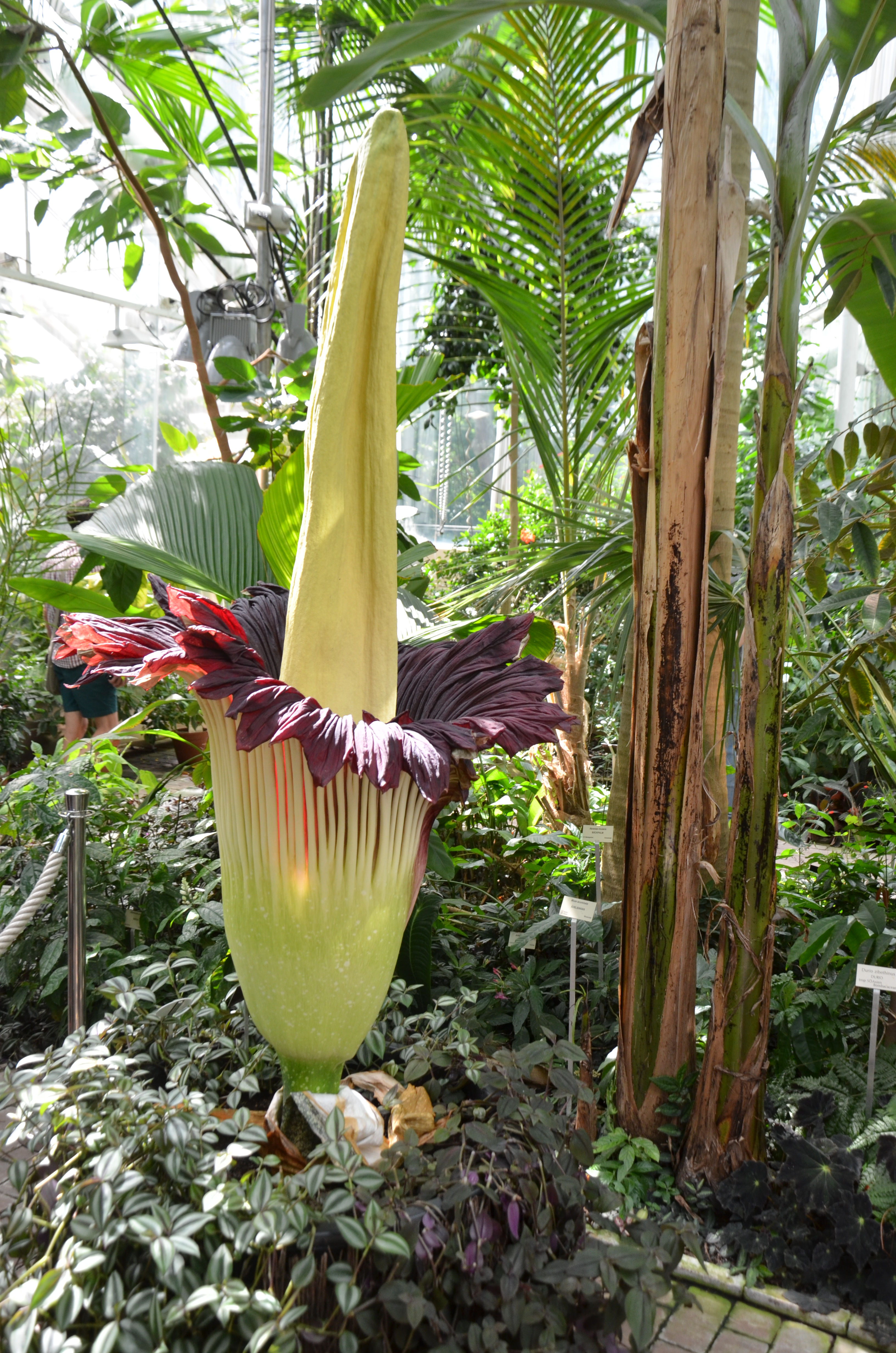 Amorphophallos titanum at Bergianska trädgården 10 July 2013. Flower of Crius